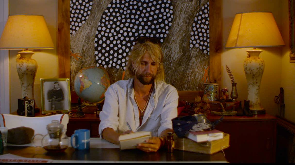 Jonas Elrod at South by Southwest